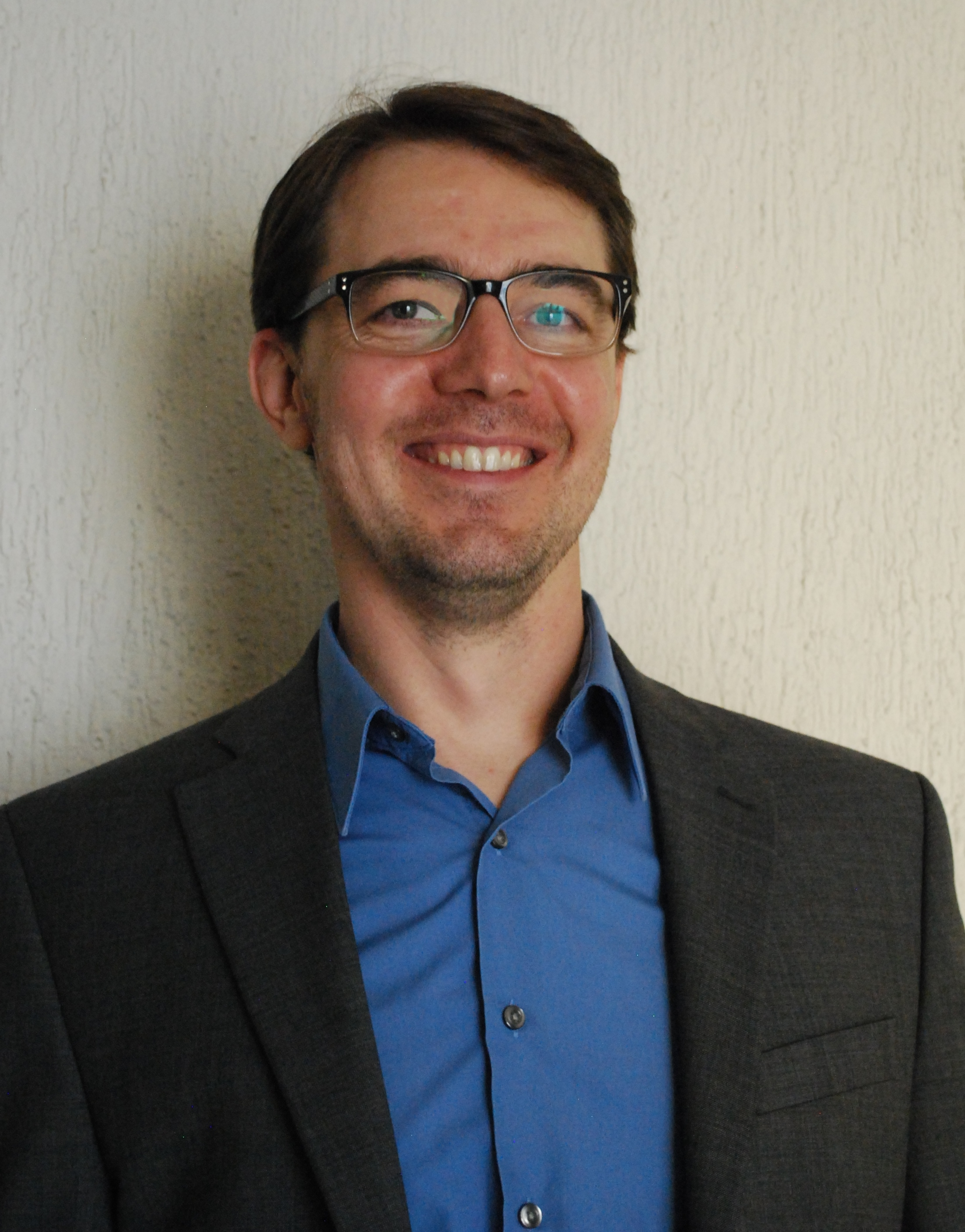 Aaron Sams at the 1er. Congreso Internacional de Innovación Educativa at the Tec de Monterrey, Mexico City Campus